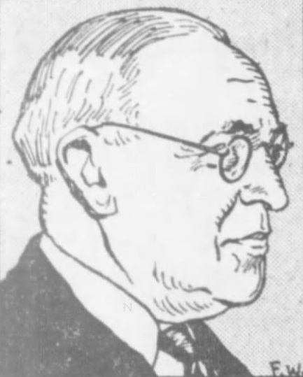 Howard A. Coffin (Michigan Congressman)